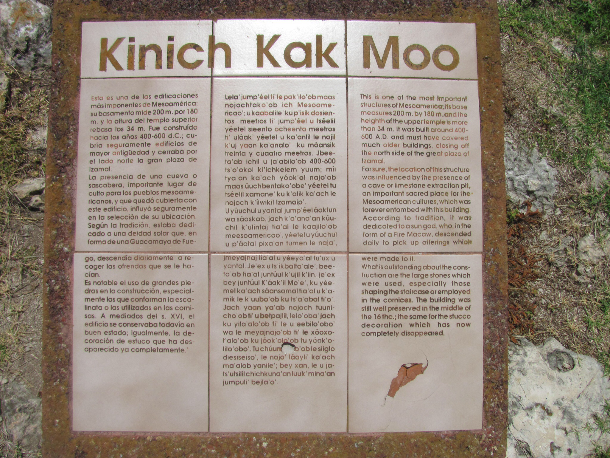 Klinisch Kak Moo Maya